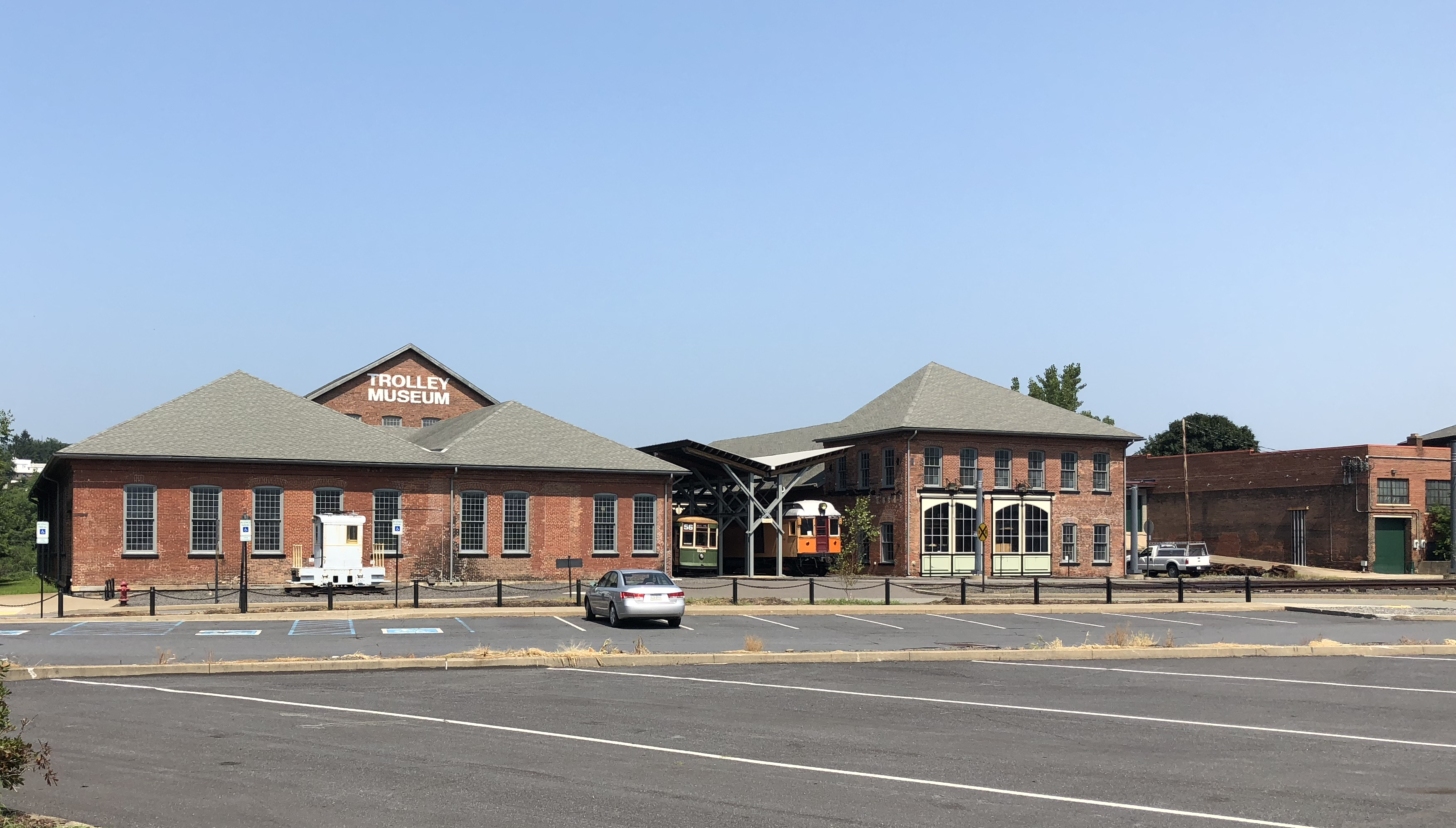 Outside of the Electric City Trolley Museum, located across Steamtown National Historic Site, in Scranton, PA